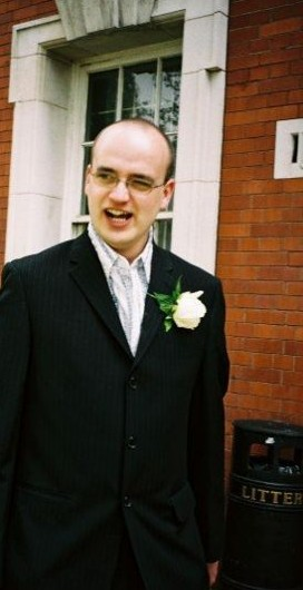 Picture of Dale Smith, taken and uploaded by Dale Smith